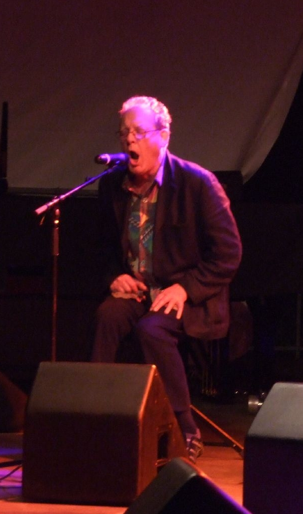 Phil Minton